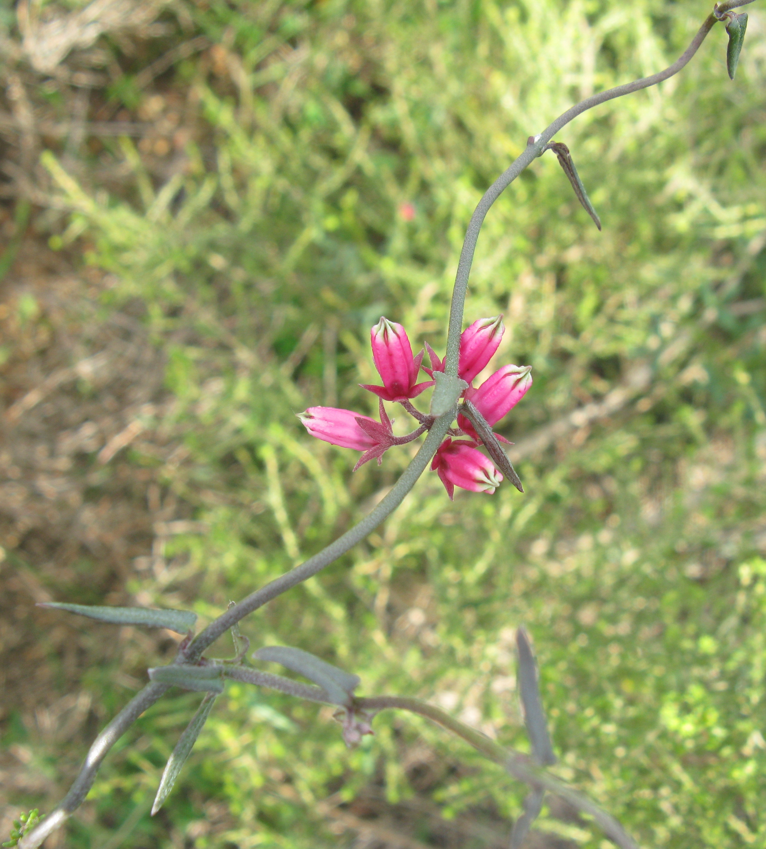 Microloma sagittatum (L.) R. Br. Flowering in wild in southern Western Cape, South Africa. Twining in a fynbos thicket.